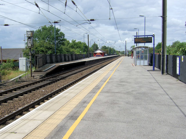 Northallerton Railway Station